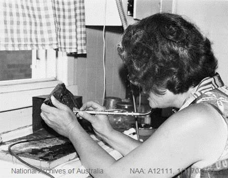 Immigration - Migrants in the arts and entertainment in Australia - British Artist practises glass engraving. Anne Dybka. PRINCIPAL CREDIT: Department of Immigration and Multicultural and Indigenous Affairs (DIMIA) The names of the files give their series and control symbols: National Archives of Australia series: A12111 Control symbol: 1/1970/6/41